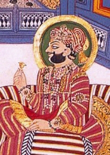 Man Singh of Marwar